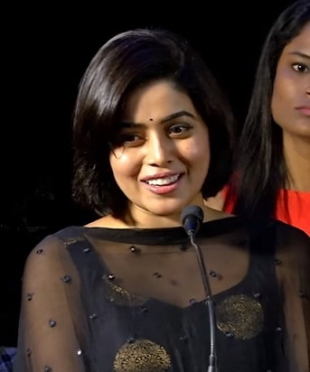 Poorna Speech at Blue Whale Movie Audio Launch